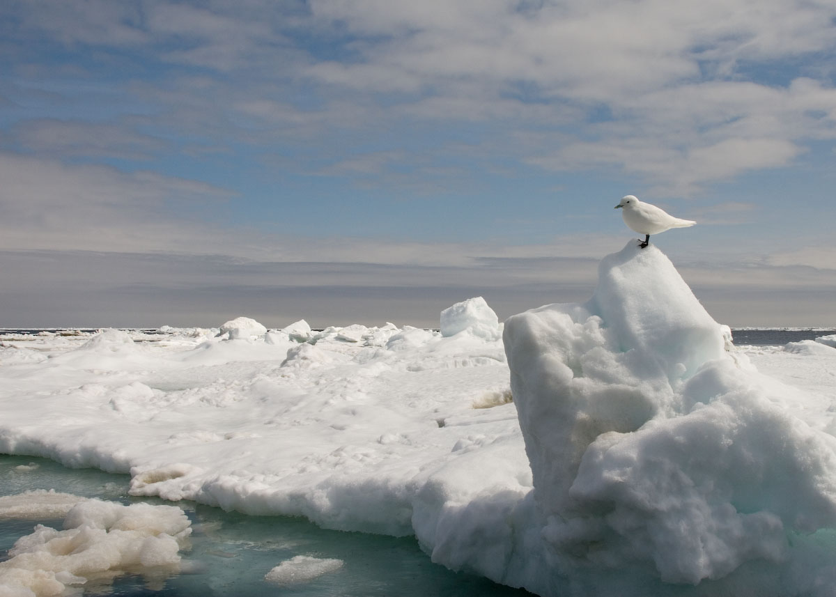 A wintering Ivory Gull in the Bering Sea